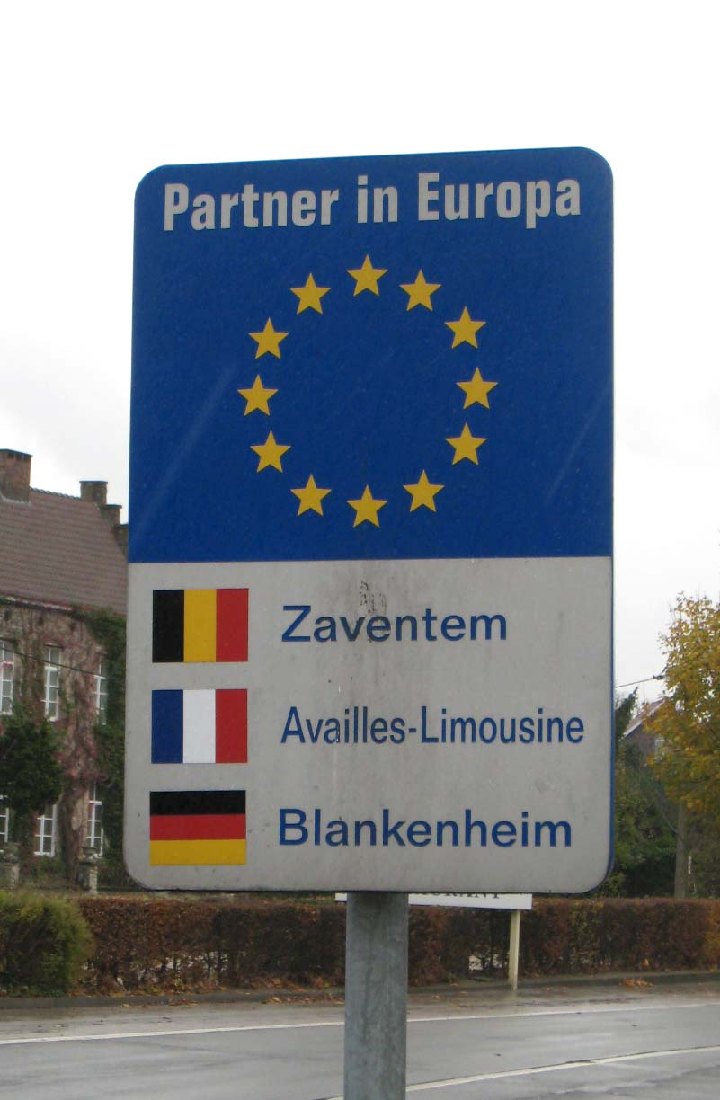 Sign showing the twin towns of Zaventem.